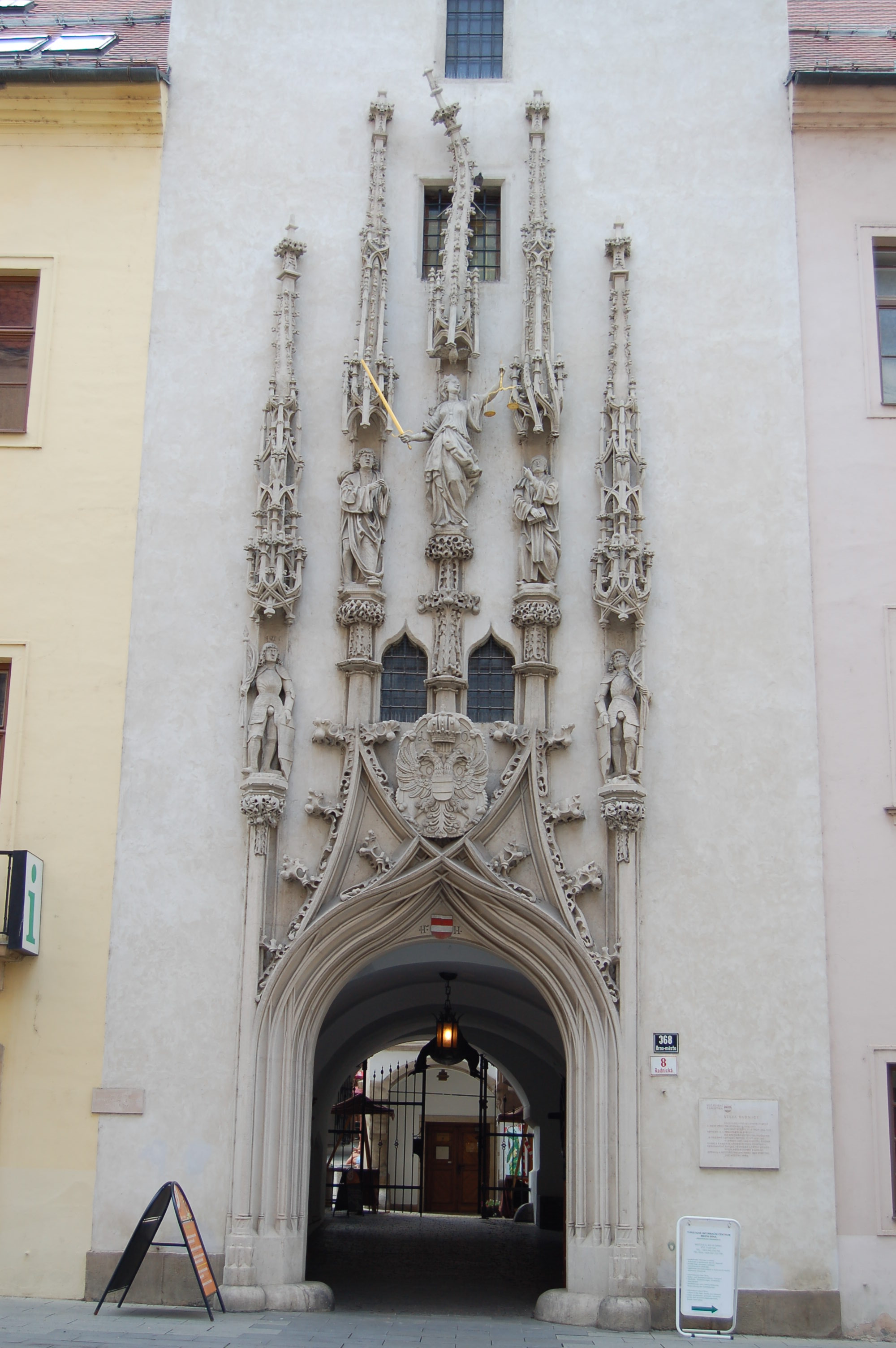 Buildings in the center of the Czech city Brno.